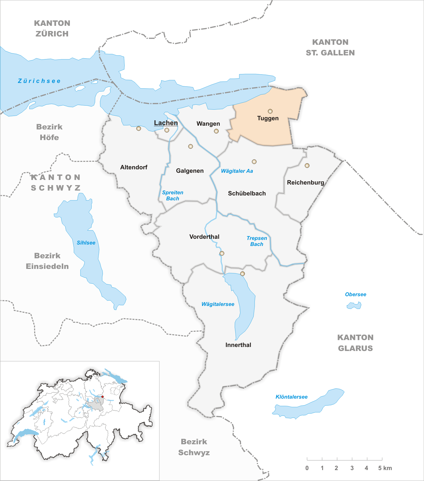 Municipality Tuggen